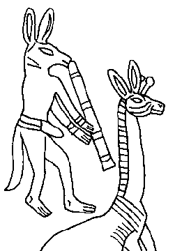 Hypothetical Seth with flute